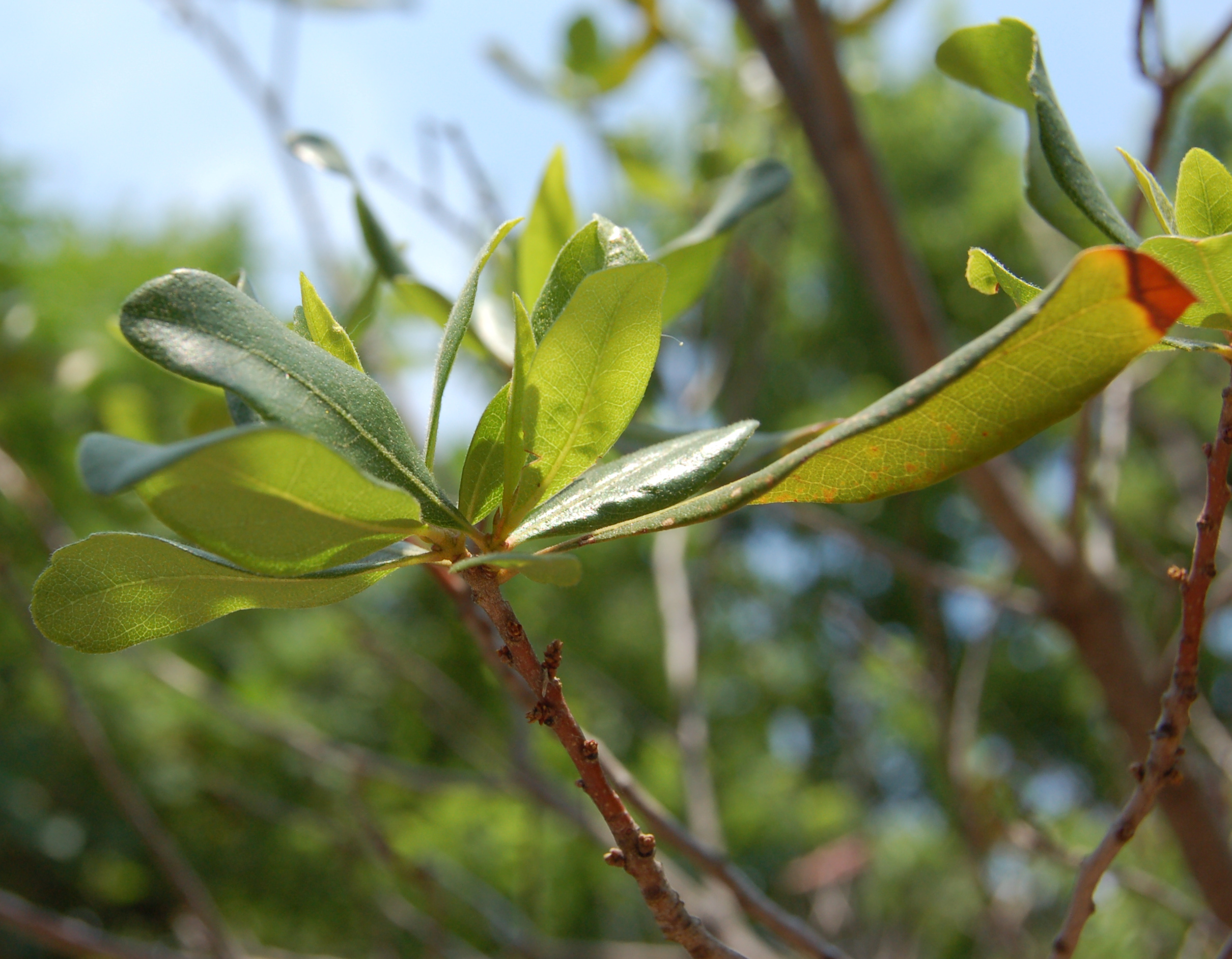 A photograph of a leaf cluster of the Northern Bayberry (Morella pensylvanica). Picture taken at and identified by the Philadelphia Zoo.